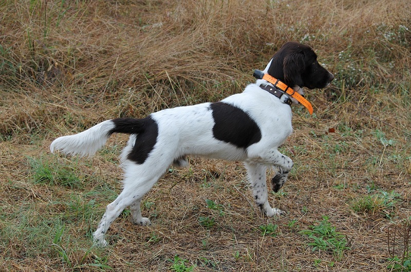 Small Munsterlander on staunch point